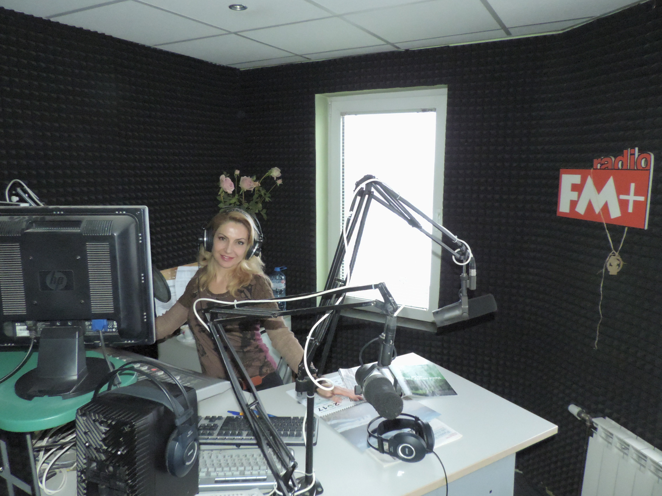 Radio journalist Iva Doychinova in the studio of the Bulgarian radio station FM+